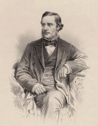 Photograph of Hugh Lupus Grosvenor, 1st Duke of Westminster by an unknow photographer, cropped and enhanced by myself